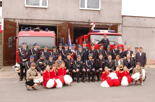 osp Służewo fireman team